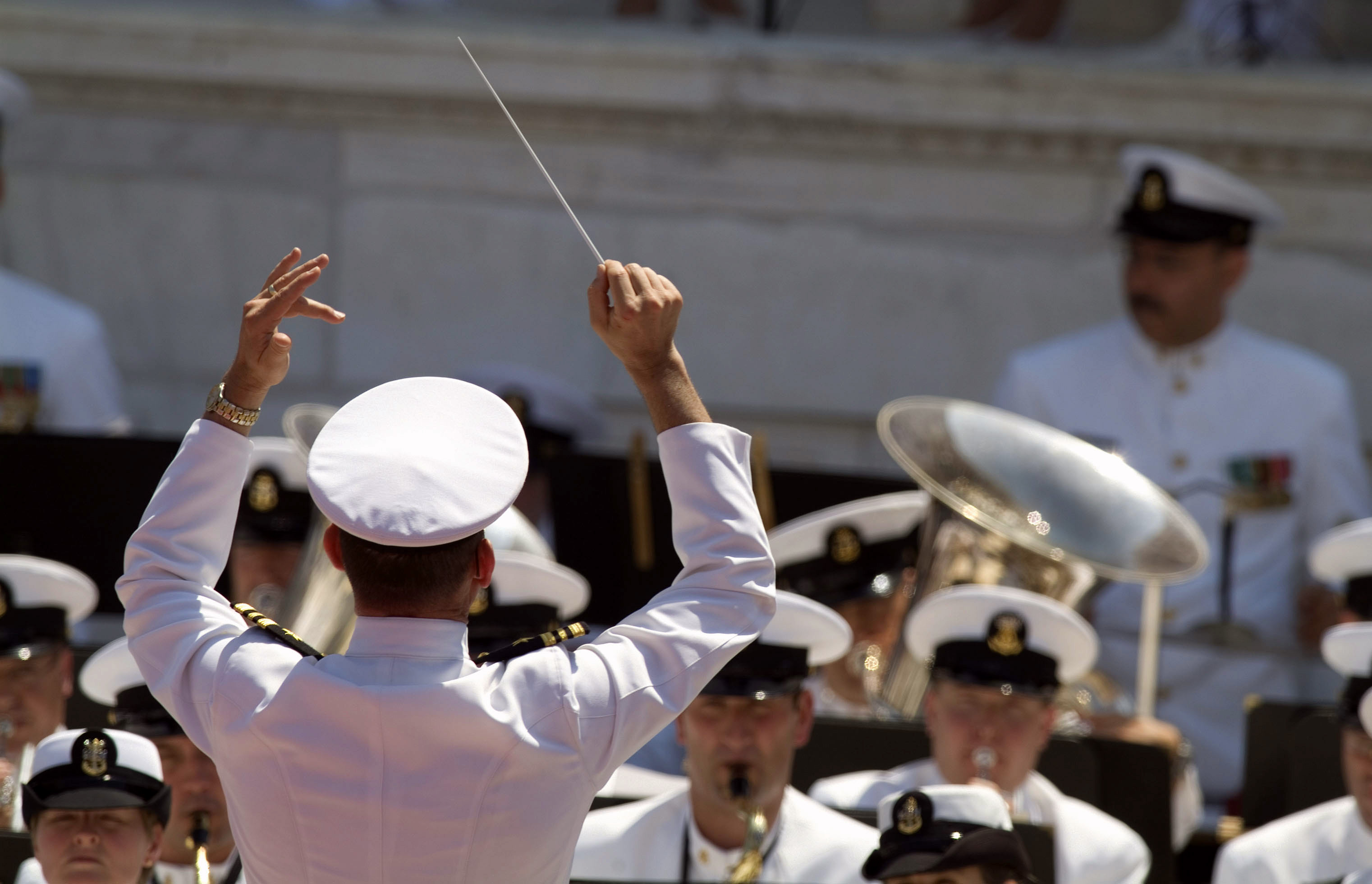 Arlington, Va. (May 29, 2006) - The U.S. Navy band performs during Memorial Day ceremonies held in the amphitheater of Arlington National Cemetery. President George W. Bush delivered remarks to the annual event that was officially observed in May of 1868 as Decoration Day, it later became Memorial Day and is an honored day of remembrance for those who have died in service of the nation. U.S. Navy photo by Chief Photographer's Mate Johnny Bivera (RELEASED)